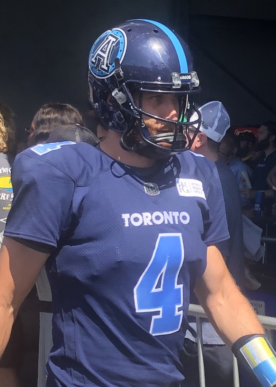 McLeod Bethel-Thompson, quarterback for the Toronto Argonauts.